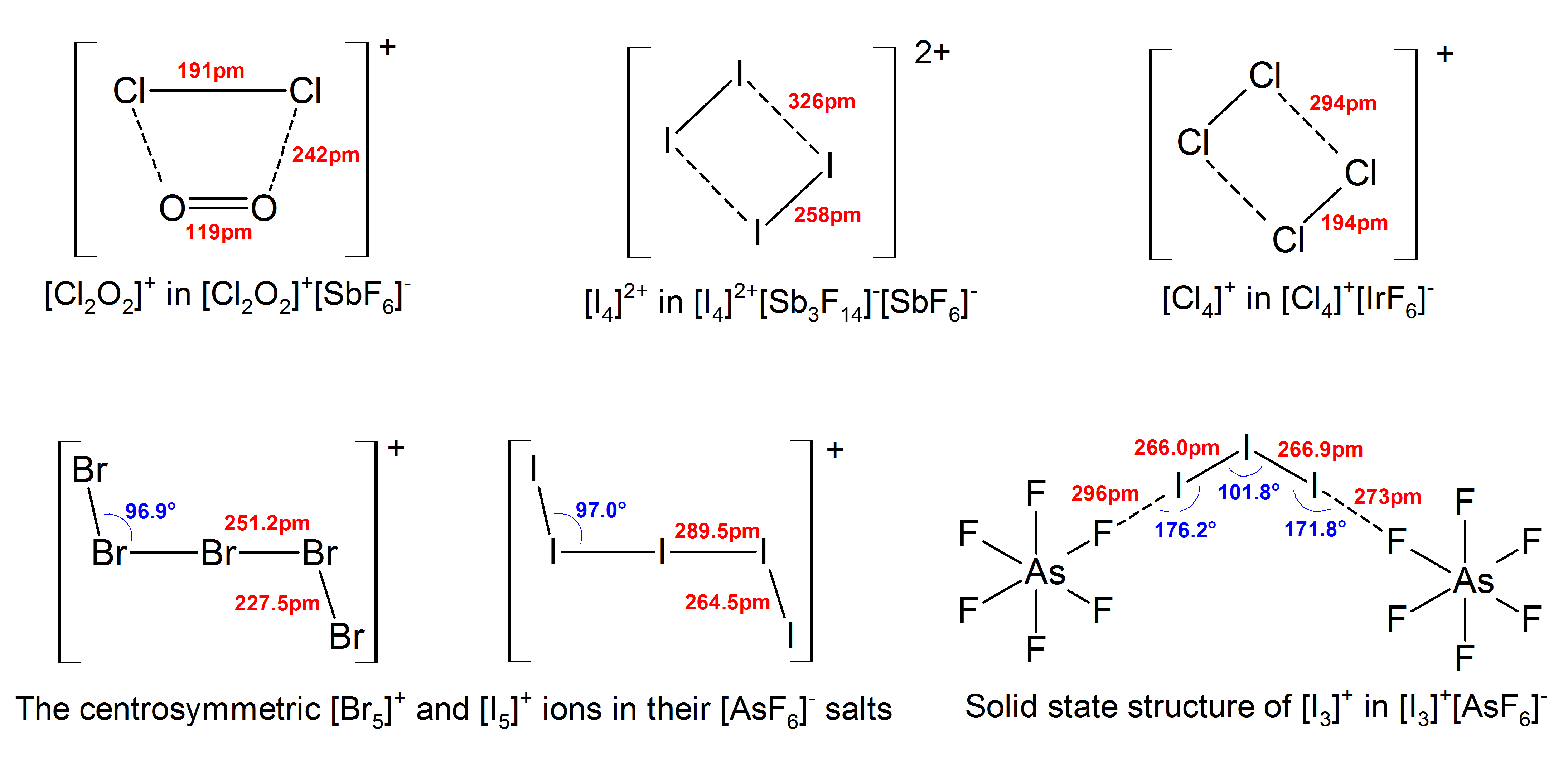 Structures of some isopolyhalogen cations: [Cl2O2]+, [I3]+, [I4]2+, [Cl4]+, [Br5]+, [I5]+